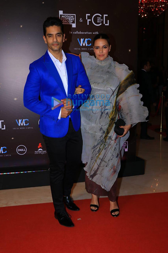 Angad and Neha at the Critics Choice Shorts & Series Awards 2019